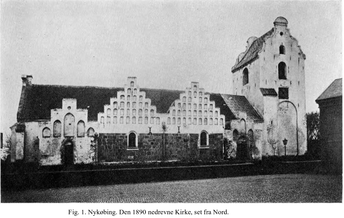 The destroyed old church in Nykøbing Mors, Denmark, demolished 1890